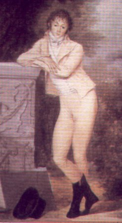 The artist is dressed here as a dandy of the 1800s.